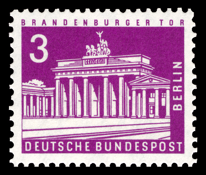 Definitive stamp series Pictures of Berlin (IV)